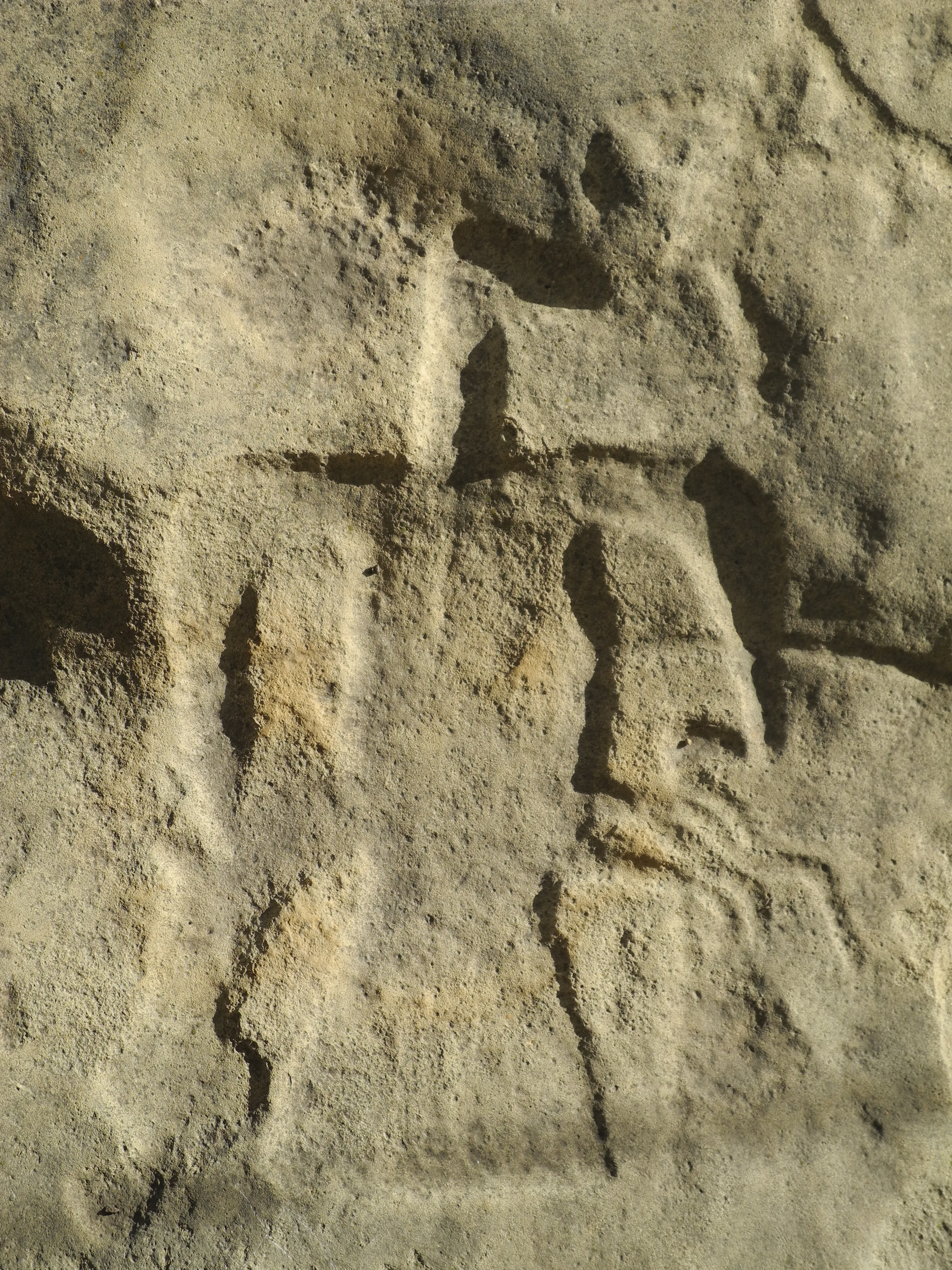 A petroglyph at Washington State Park in Missouri dated to approximately 1000 C.E. This image is interpreted as "sacred eagle and shamen".[1] The figure in the image is approximately 10-12 inches (25-30 cm) tall.